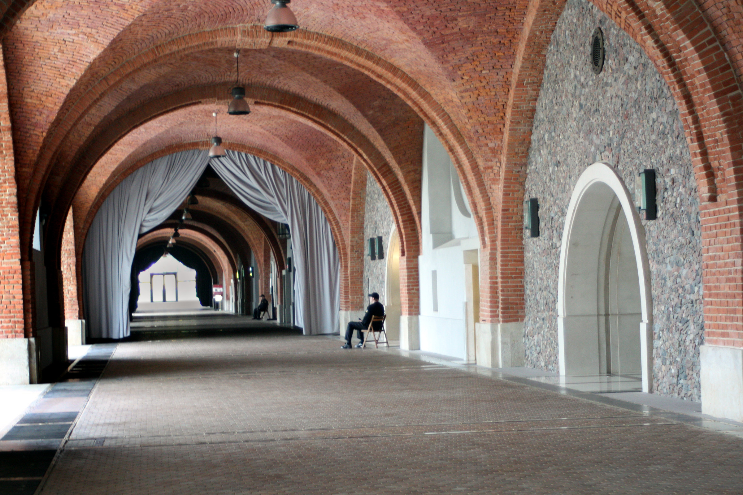 Kubicki Arcades - 19th century arcades, now the main entrance to the Royal Castle